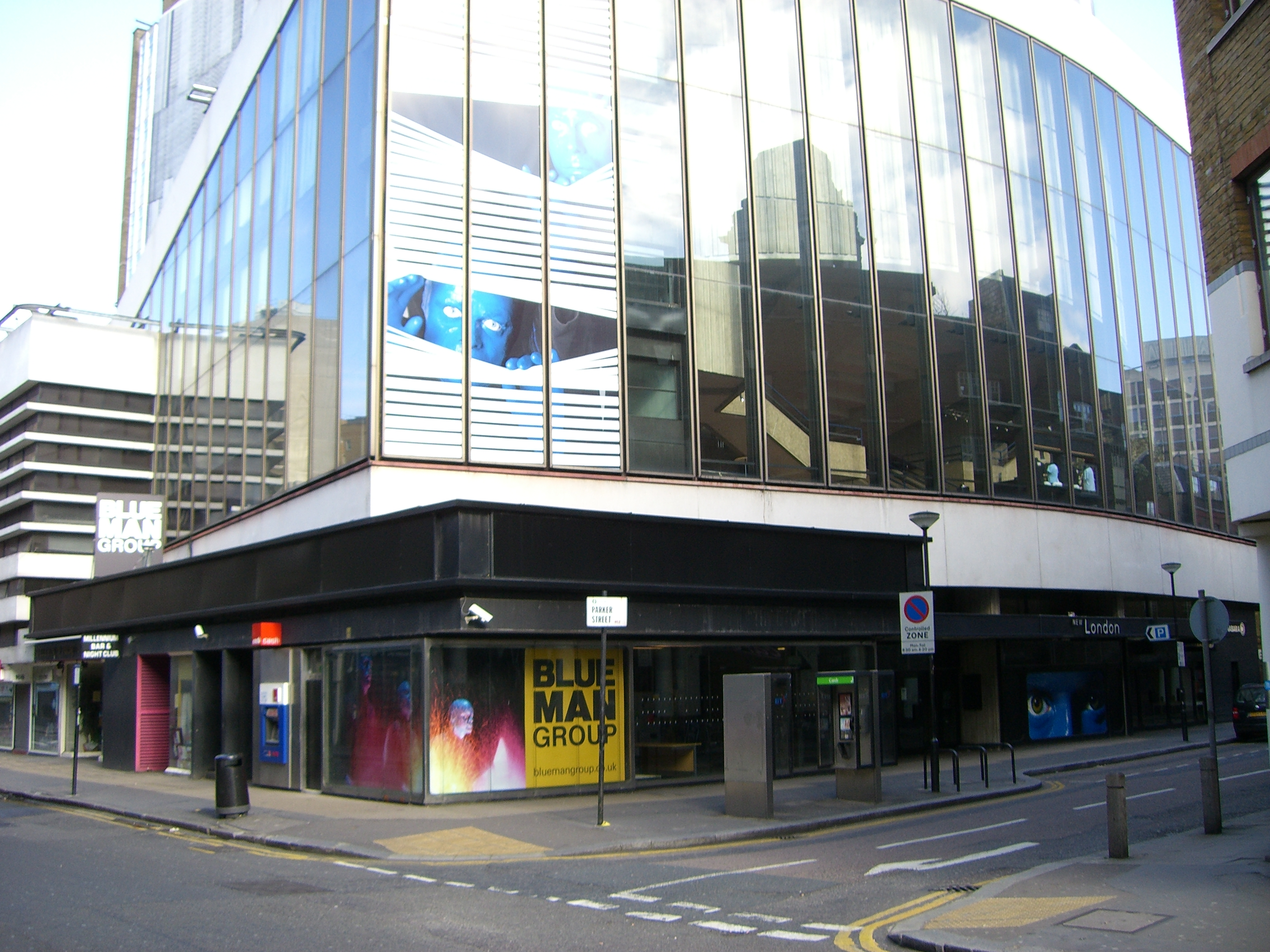 New London Theatre Photo taken by User:Edward on 19 March 2006 with a Casio EX-S600.